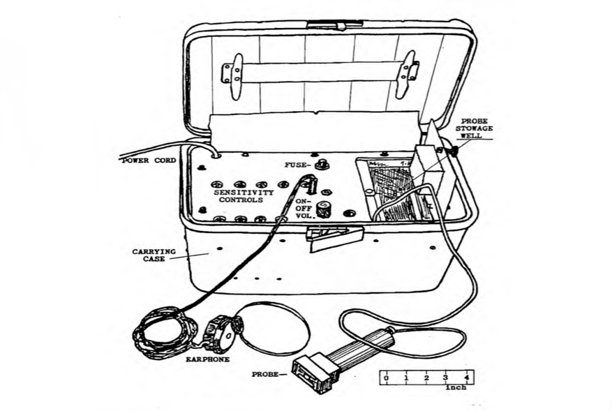 Picture of a Battelle Model D Optophone